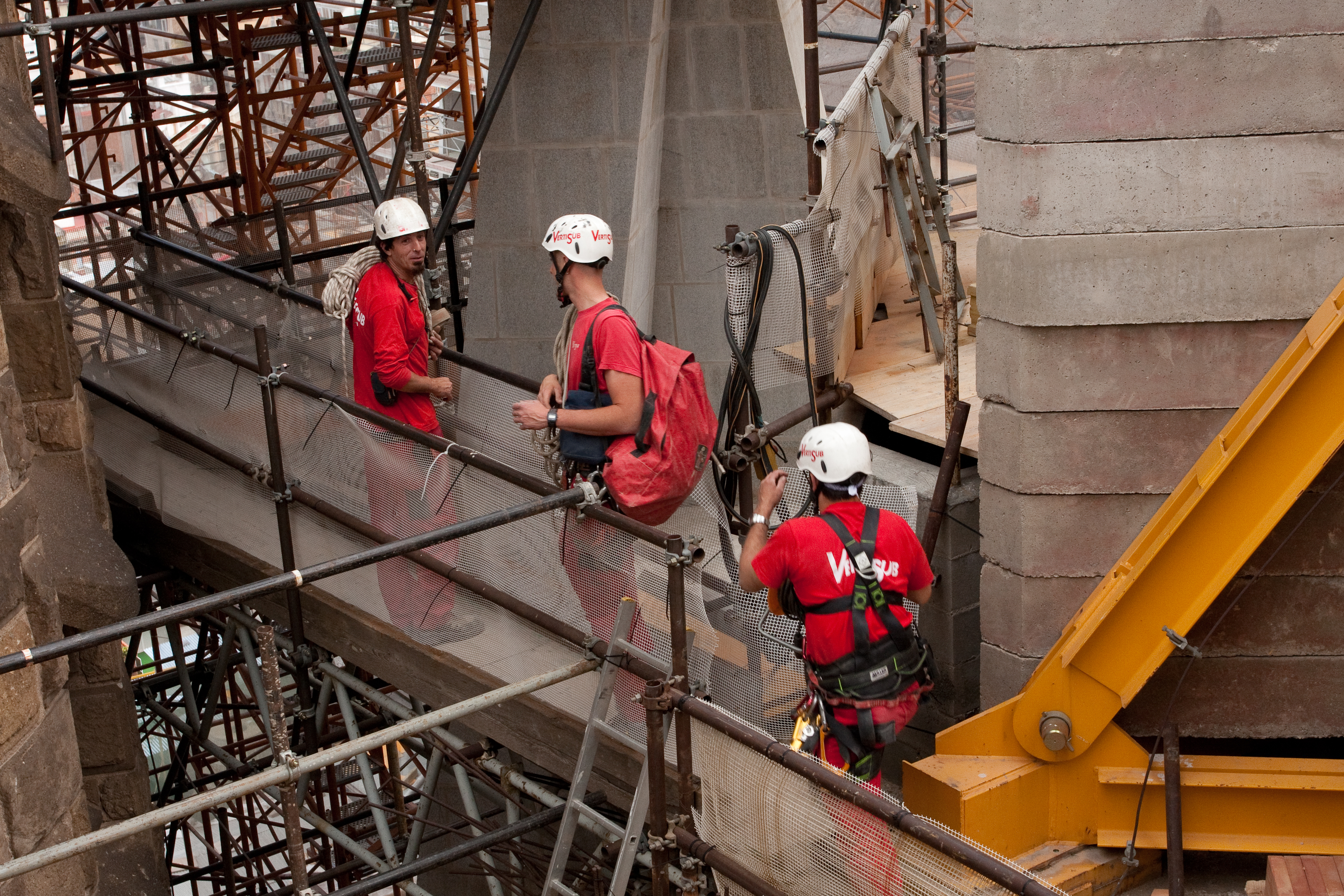 Workers on the towers of Gaudi's Sagrada Familia church in Barcelona